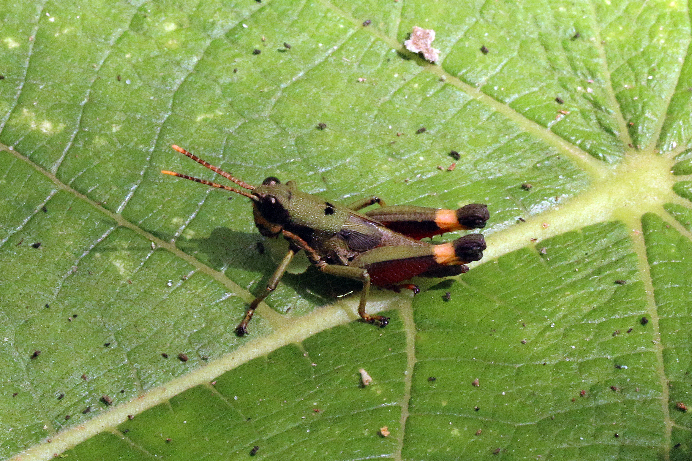 Short-horned grasshopper (Traulia azureipennis) brown form nymph, Sabah, Borneo